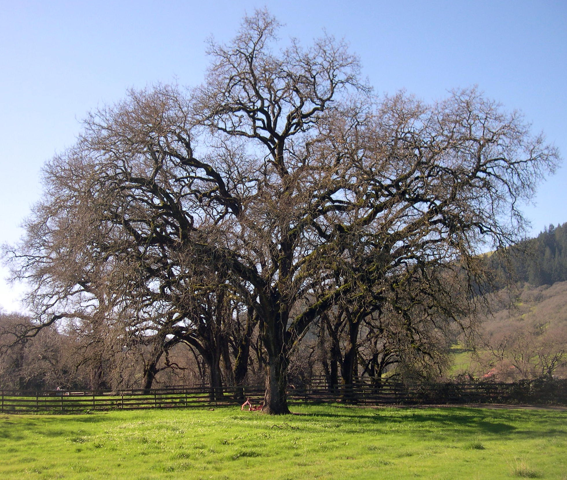 Valley Oak, Sonoma County